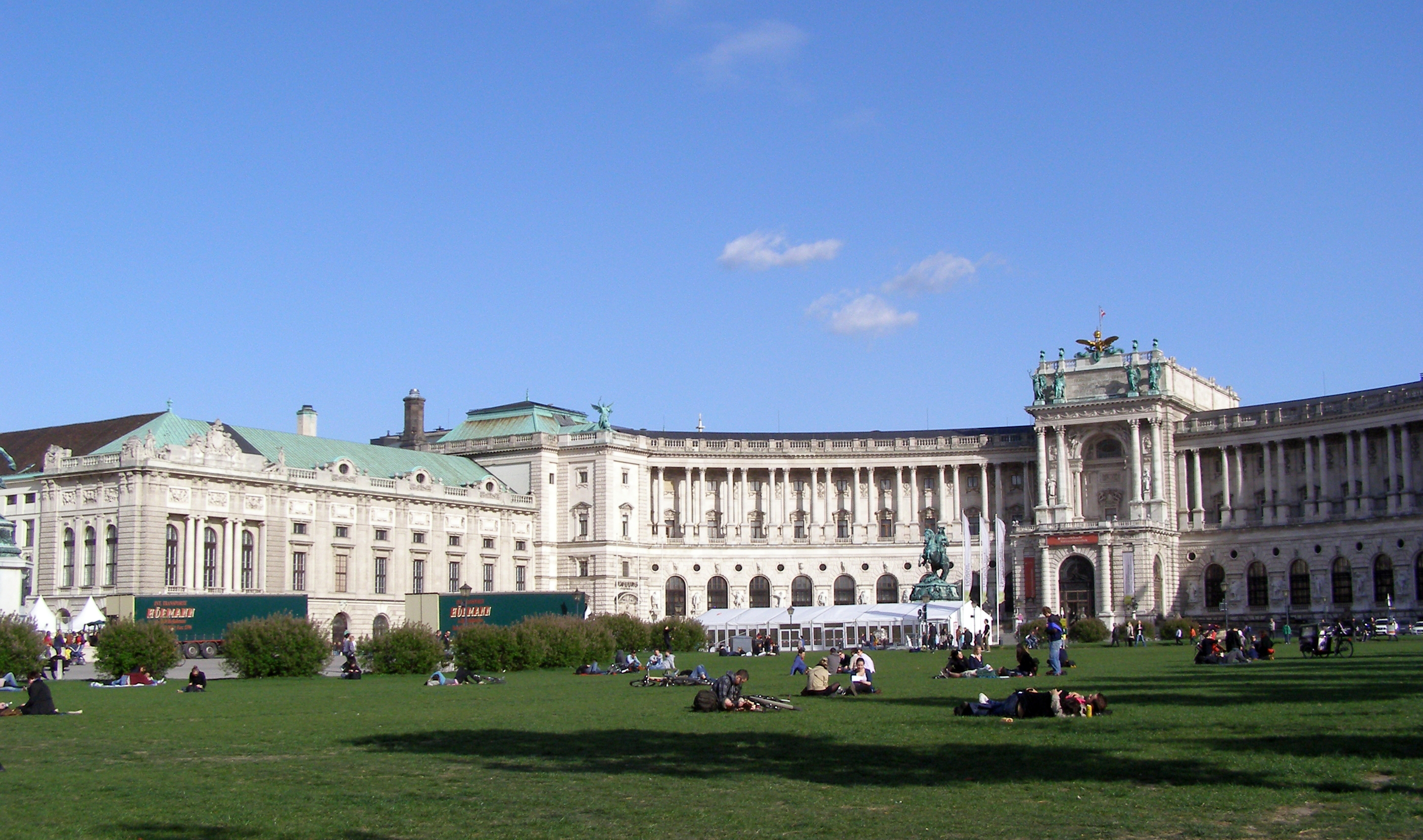 Heldenplatz, Vienna